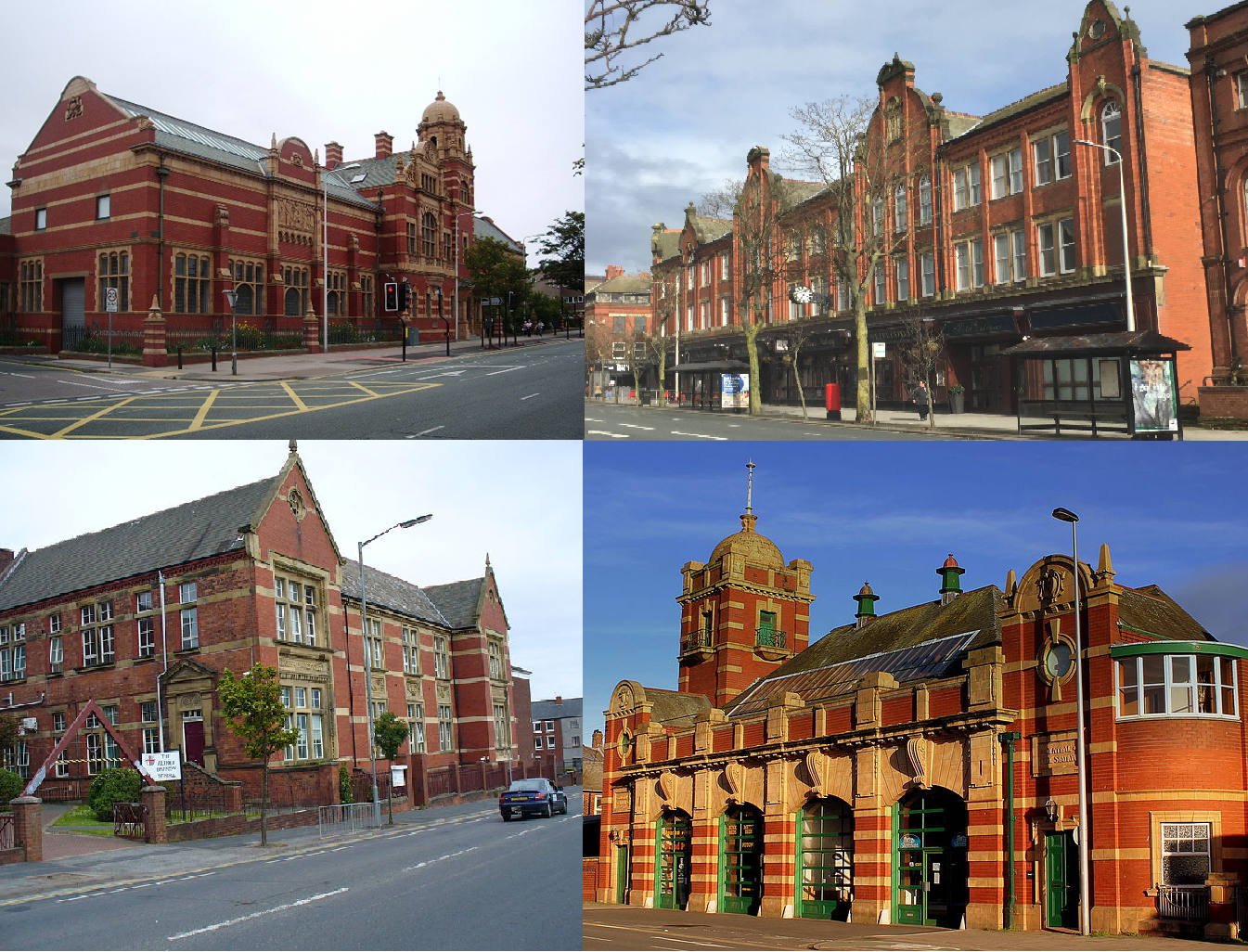 Collage of similar architecture in Barrow-in-Furness, Cumbria, England. Using images: Nan Tait Centre Co-operative Building Central Fire Station Higher Grades School